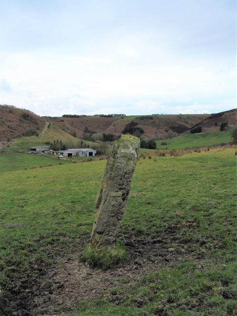 Standing stone near Newgate Foot